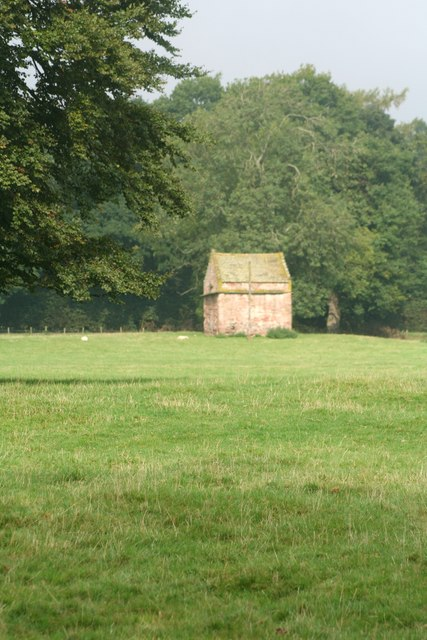 Balbegno Dovecot Between Balgeno Farm and Castle lies the dovecot just visible from the road.